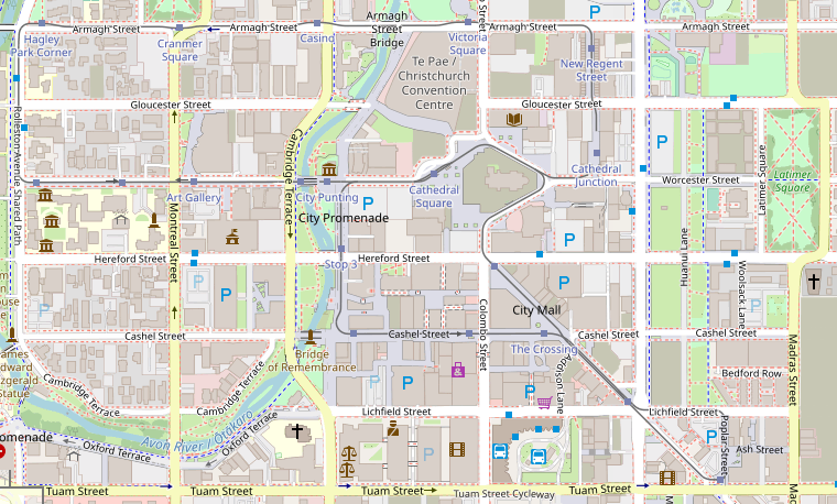 Central city heritage tramway circuit in Christchurch, New Zealand.